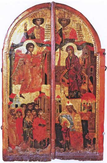 Royal Doors in Poloshko Monastery